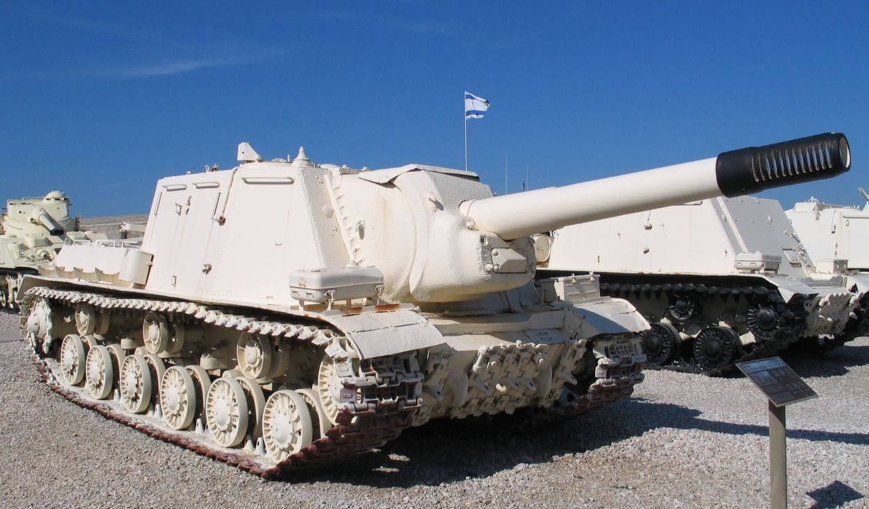 Description: ISU-152 152 mm self-propelled gun-howitzer in Yad la-Shiryon Museum, Israel. 2005. Source: Photo by me, User:Bukvoed.